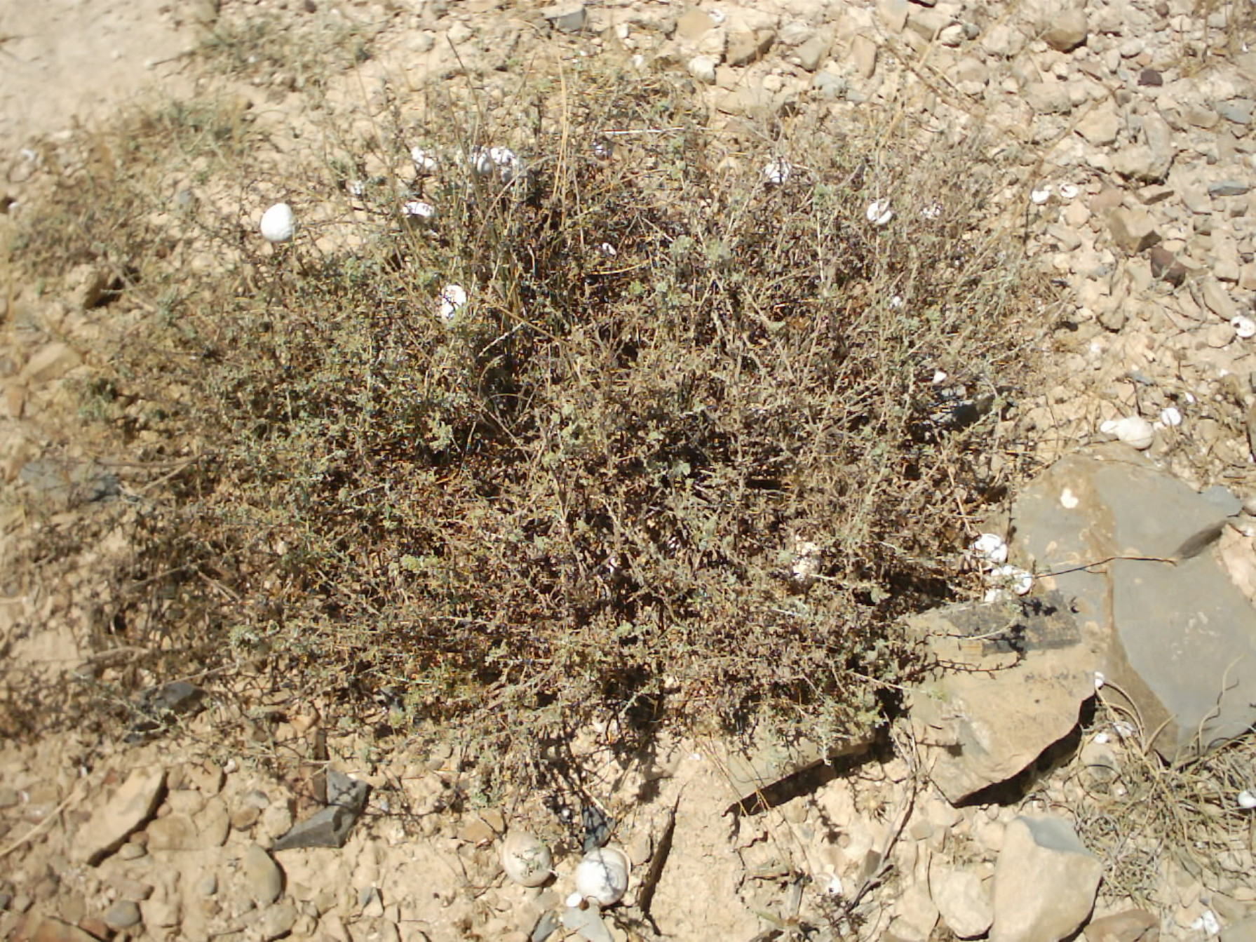 White wormwood, in west Djebel, Tunisia.